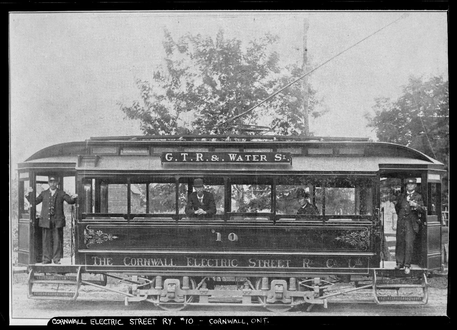 Title / Titre : Cornwall Electric Street Railway Company car No. 10, G.T.R. & Water Street, Ontario / Voiture no 10 de la Cornwall Electric Street Railway Company, Grand Trunk Railway et rue Water (Ontario) Creator(s) / Créateur(s) : Unknown / Inconnu Date(s) : Unknown / Inconnu Reference No. / Numéro de référence : MIKAN 3614880 Location / Lieu : Cornwall, Ontario, Canada Credit / Mention de source : Library and Archives Canada, e004665767 / Bibliothèque et Archives Canada, e004665767